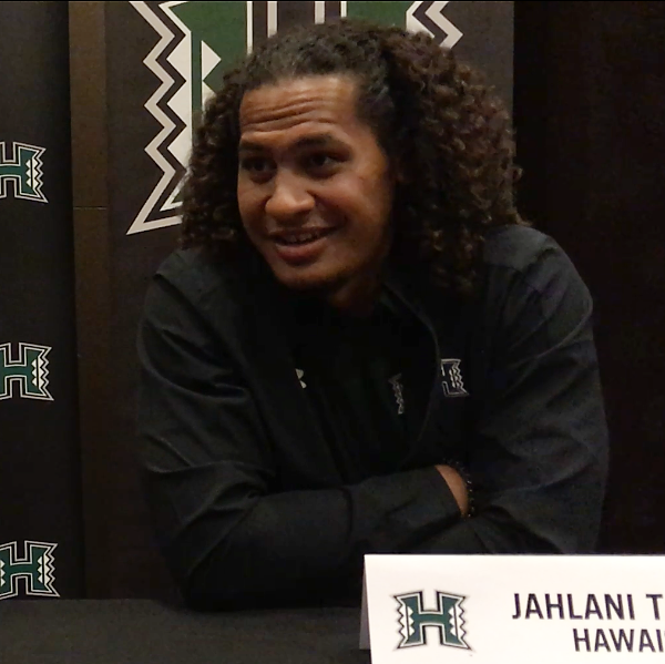 Jahlani Tavai, linebacker for the Hawaii Rainbow Warriors football team, at the 2017 Mountain West Conference Media Days in the The Cosmopolitan in Las Vegas.